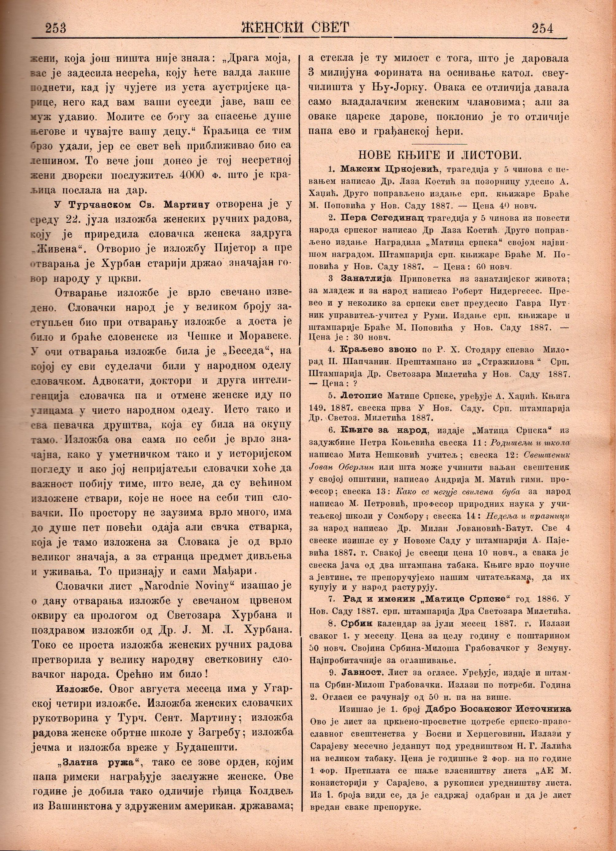 Ženski svet, magazine, number 8, page 253, 1887, Novi Sad, article about New books.